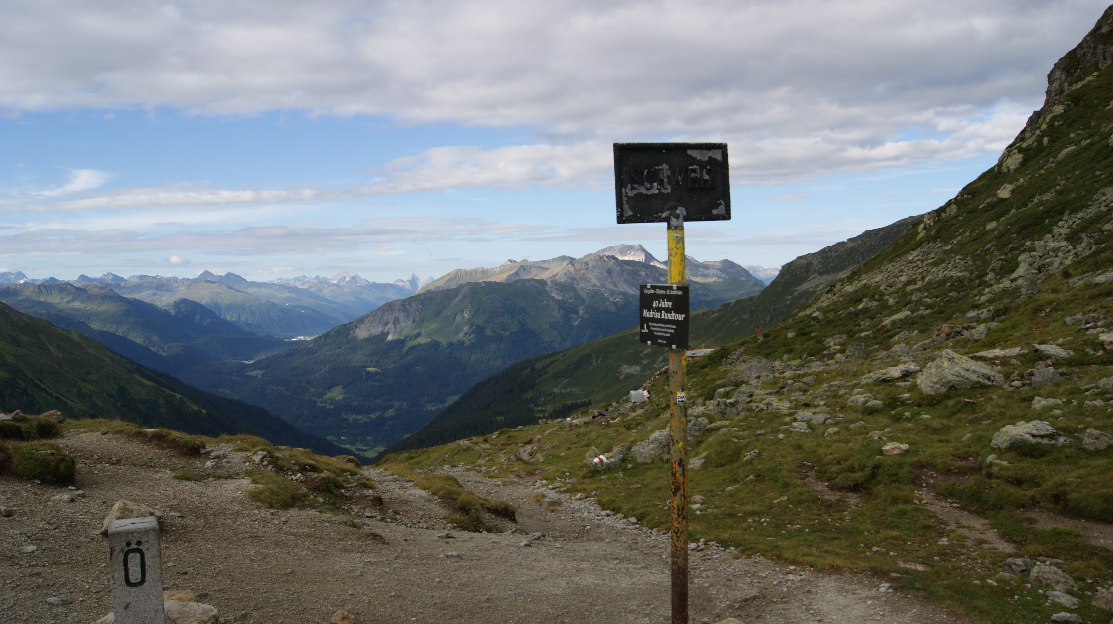 Schlappiner Joch - border in the municipality Gargellen in Vorarlberg Austria and the community Klosters (Schlappin) in Graubünden (Switzerland)